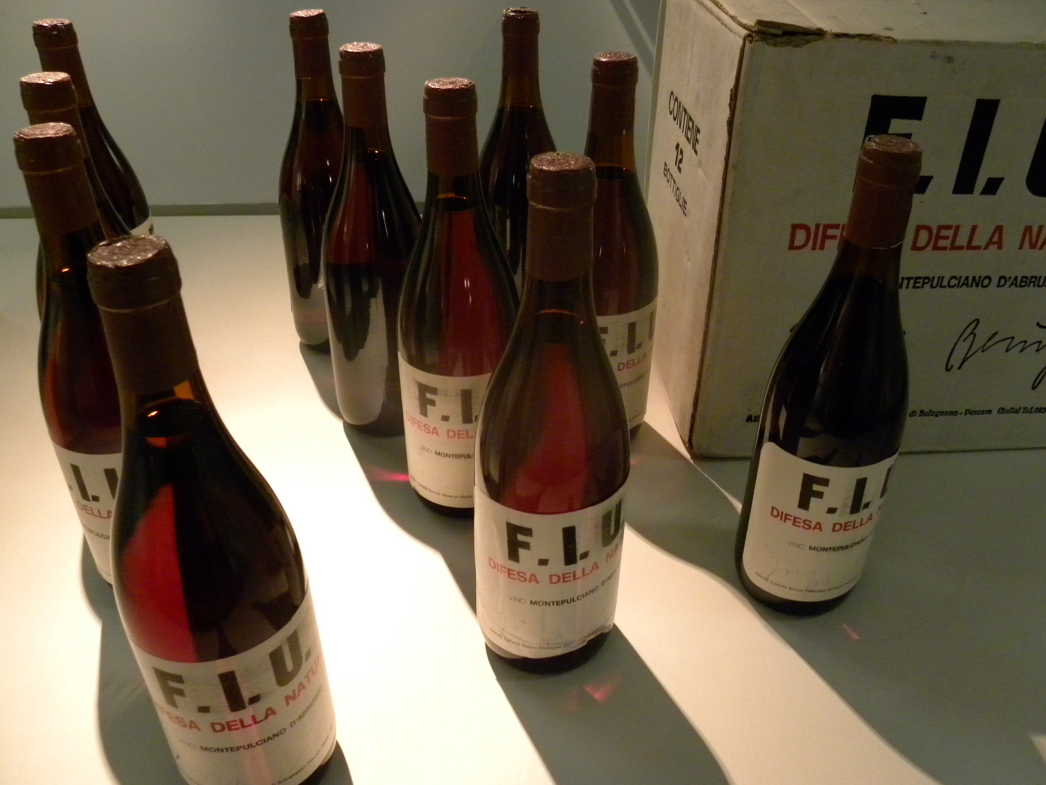 F.I.U. - Difesa della natura, 1983. 12 wine bottles, labels (print, ink, stamp / paper); cardboard box, box: 31 x 33,4 x 26,5. Inv. No. MSU 3888 (1-12).